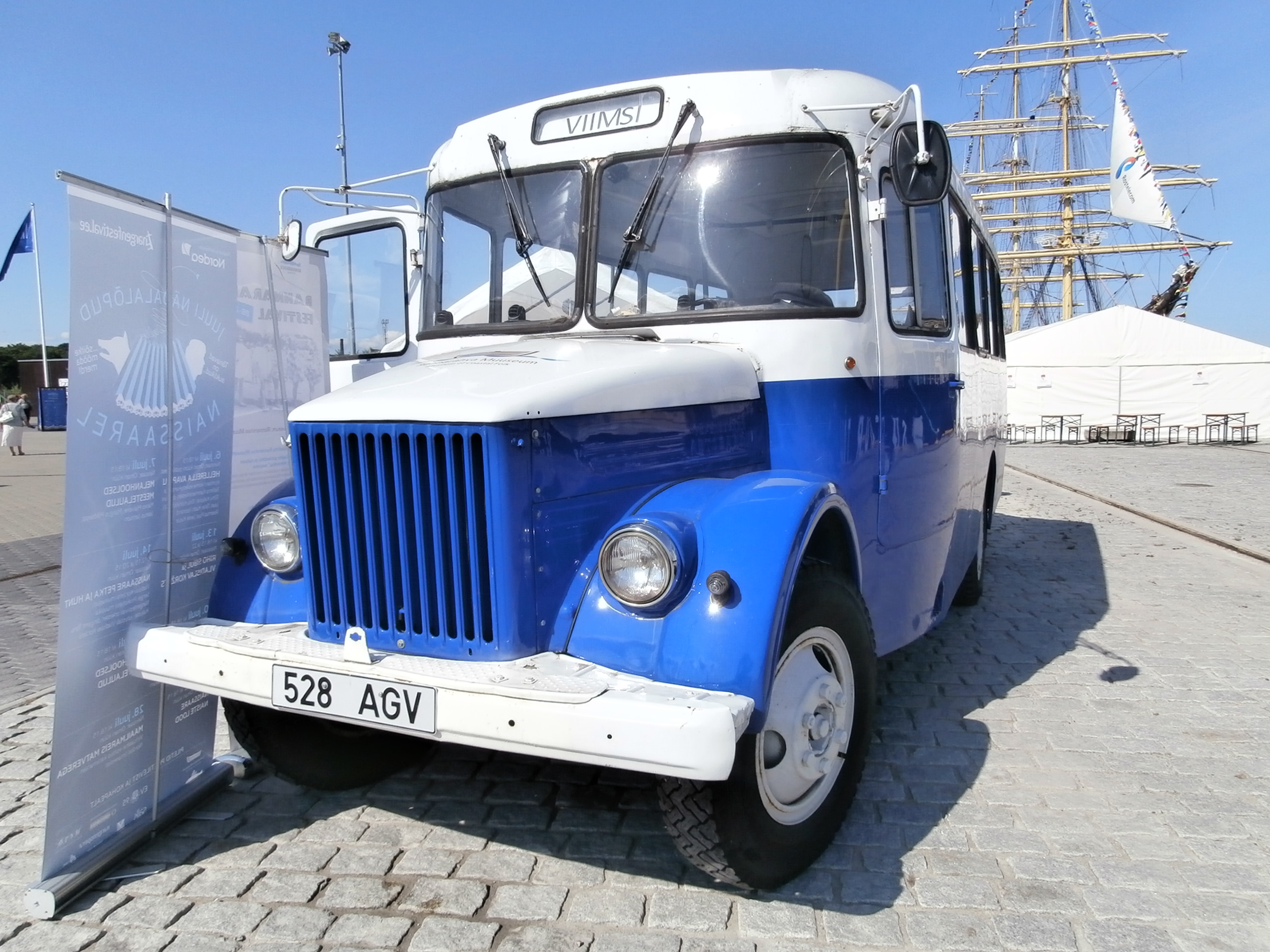 Viimsi GZA-651 family bus, licence plate 528 AGV, Lennusadam, Tallinn 12 July 2013